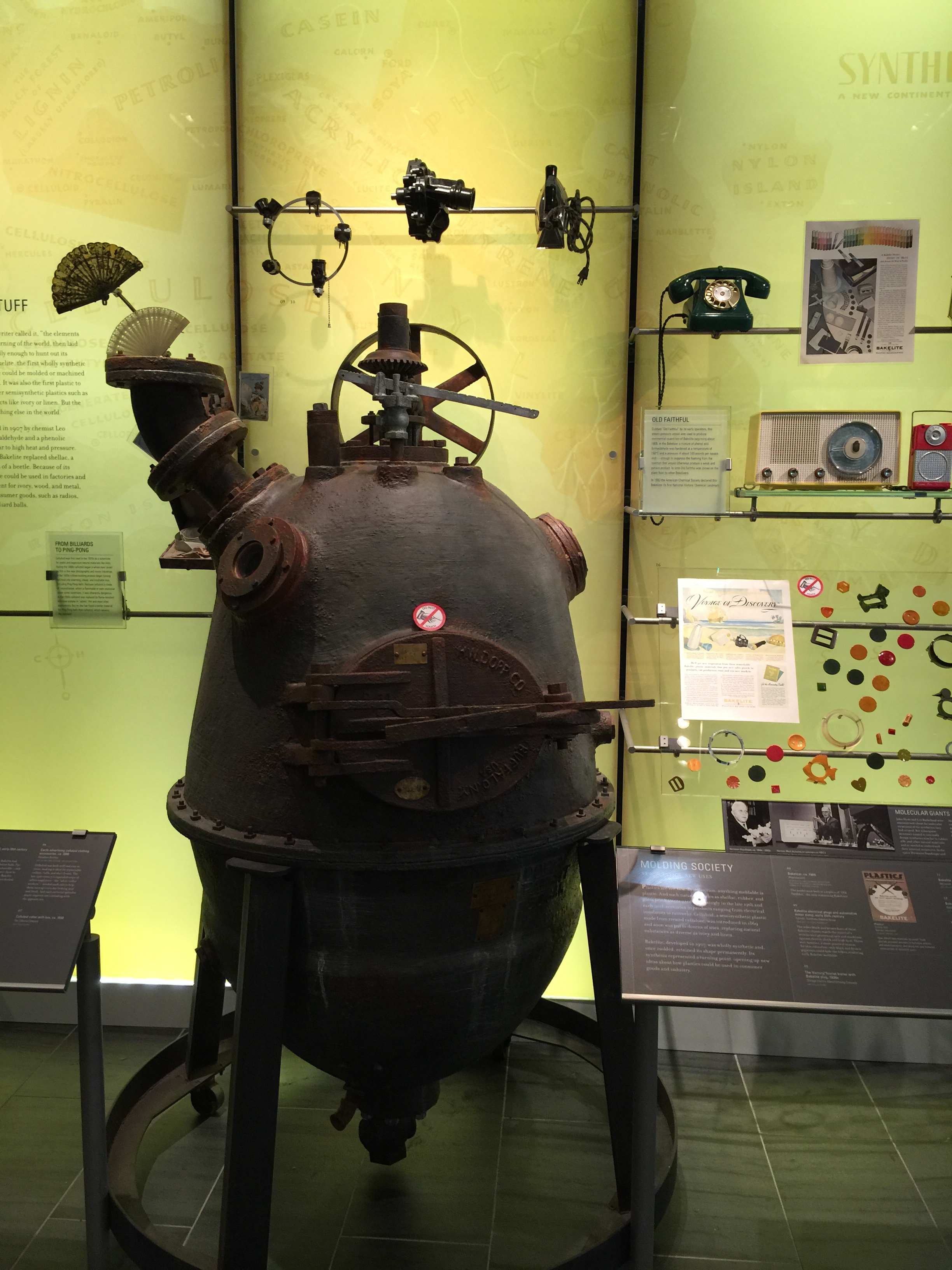 Chemical Heritage Foundation Museum, January 2017. "Old Faithful" bakelite cooker.